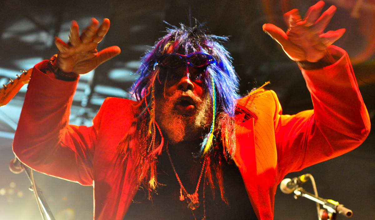 Voodoo Music Experience, New Orleans, 2009